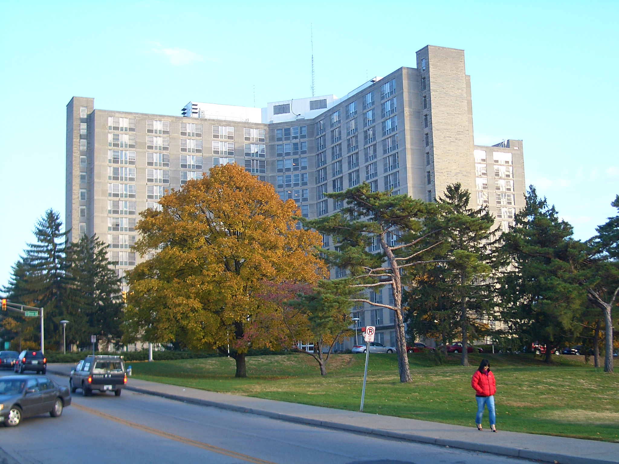 Carl H. Eigenmann Hall at Indiana University, Bloomington. In the 1990s, it was a residence hall reserved primarily for graduate students and foreign students.